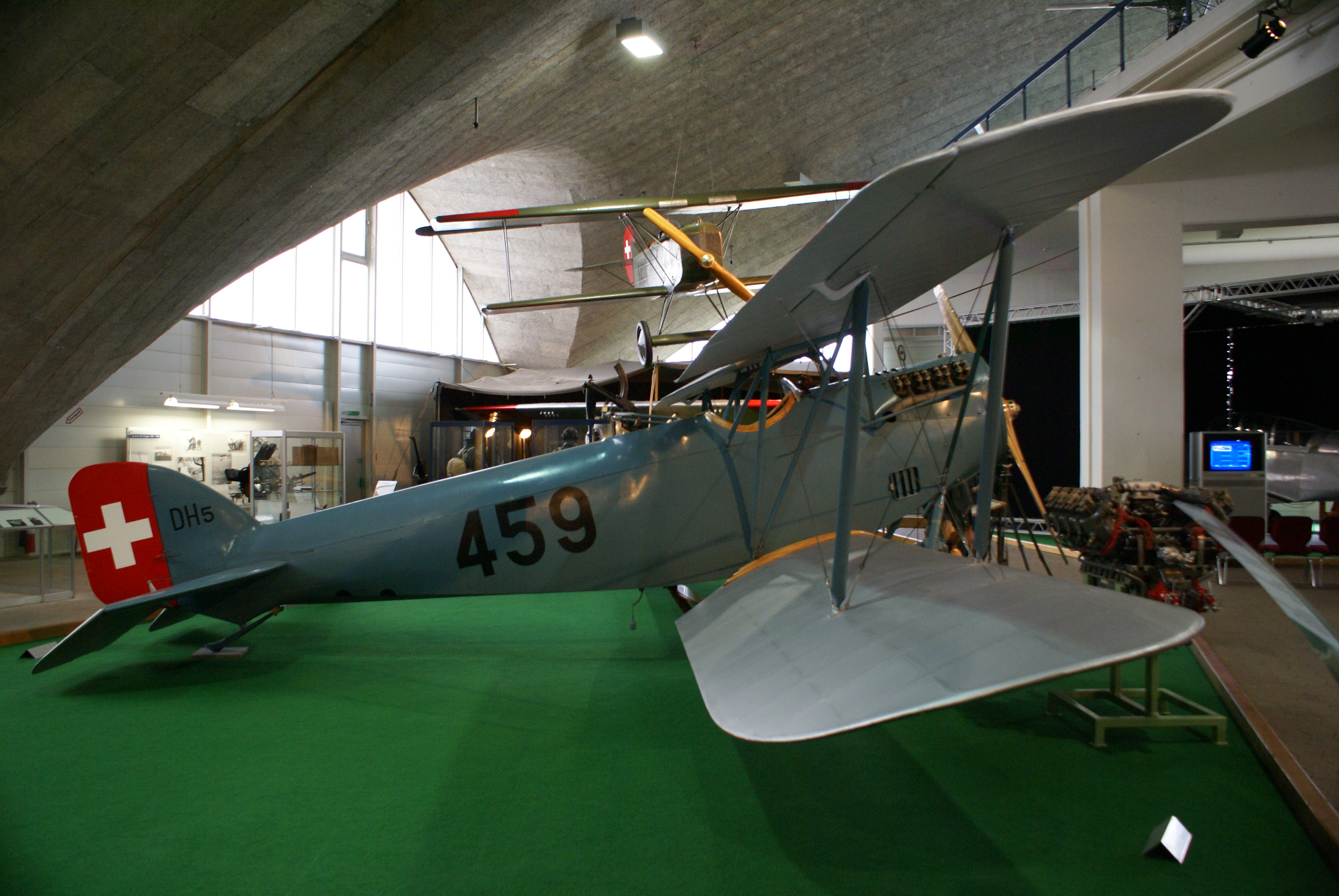 Häfeli DH-5 reconnaissance aircraft of the Swiss Army Air Corps, second series.